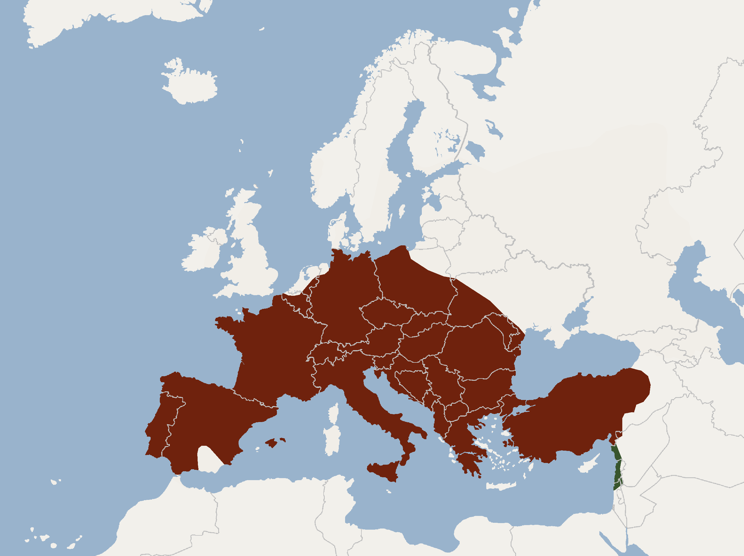 According to . Subspecies range in different colours.